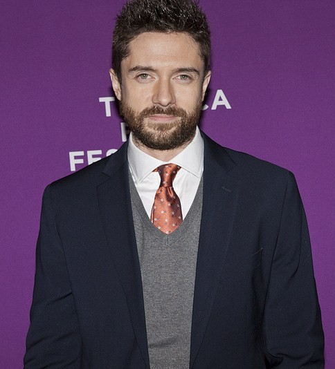 Topher Grace - Tribeca Film Festival 2012: Giant Mechanical Man World Premiere (April 23, 2012)